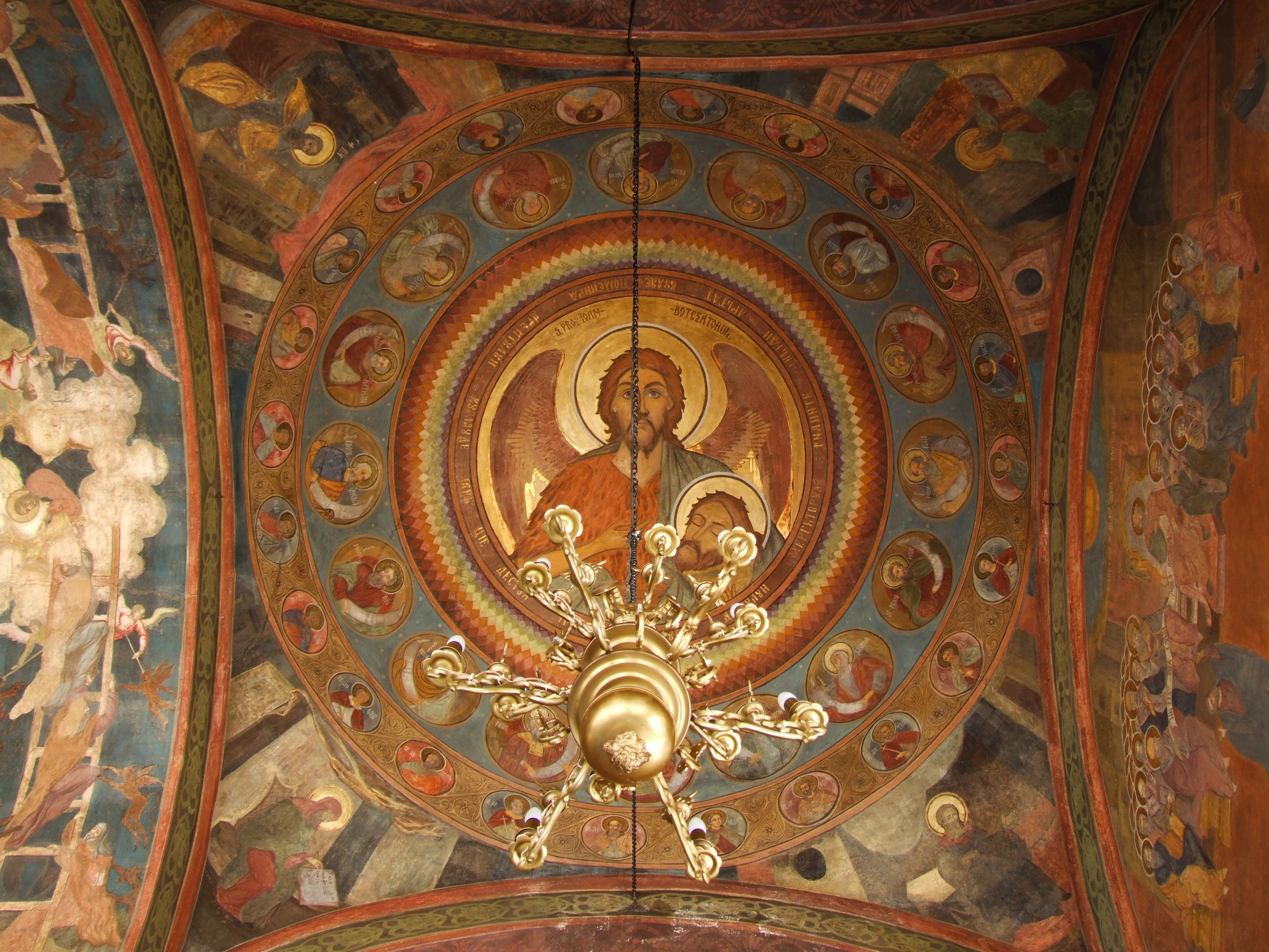 Romanian Patriarchal Cathedral in Bucharest - mural